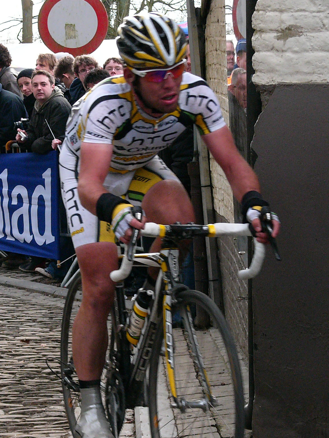 Cavendish struggles at the back of the 2010 race as he goes over the Muur